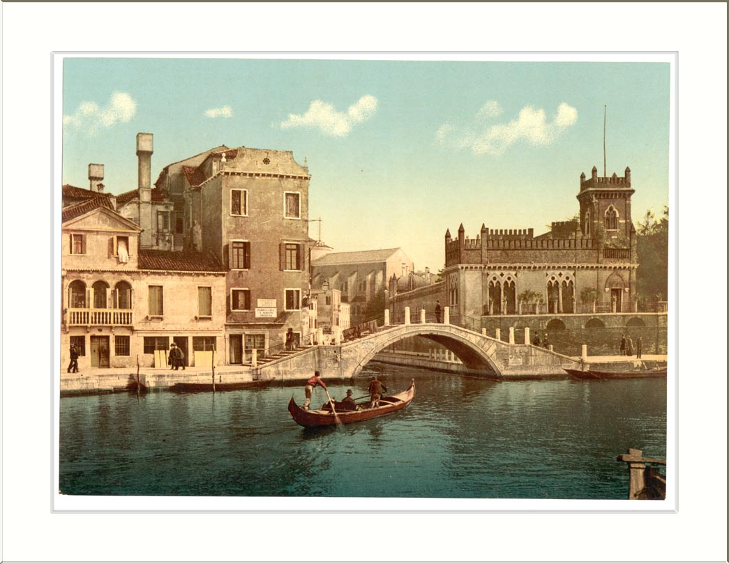 between ca. 1890 and ca. 1900. Print no. 1103. Views of architecture and other sites in Italy 1 photomechanical print : photochrom color. Library of Congress Prints and Photographs Division Washington D.C. 20540 USA Bridge and canal Venice Italy between ca. 1890 and ca. 1900. Print no. 1103. Views of architecture and other sites in Italy 1 photomechanical print : photochrom color. Library of Congress Prints and Photographs Division Washington D.C. 20540 USA